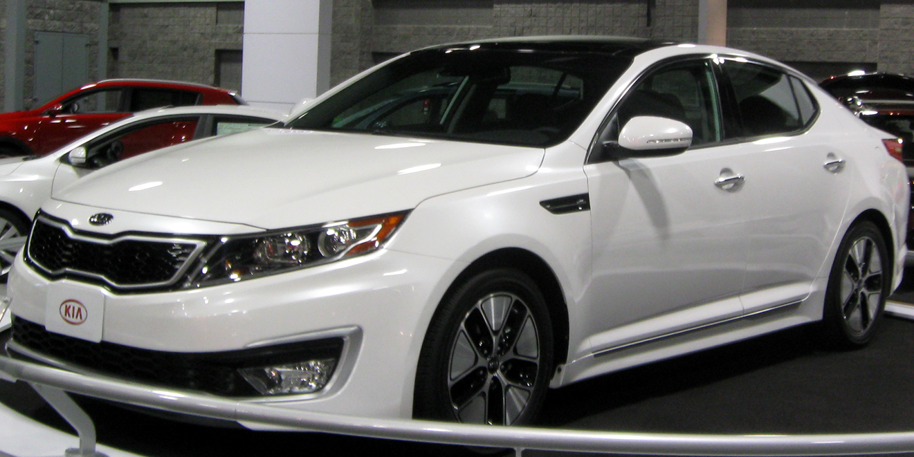 2011 Kia Optima Hybrid photographed at the 2011 Washington (D.C.) Auto Show.